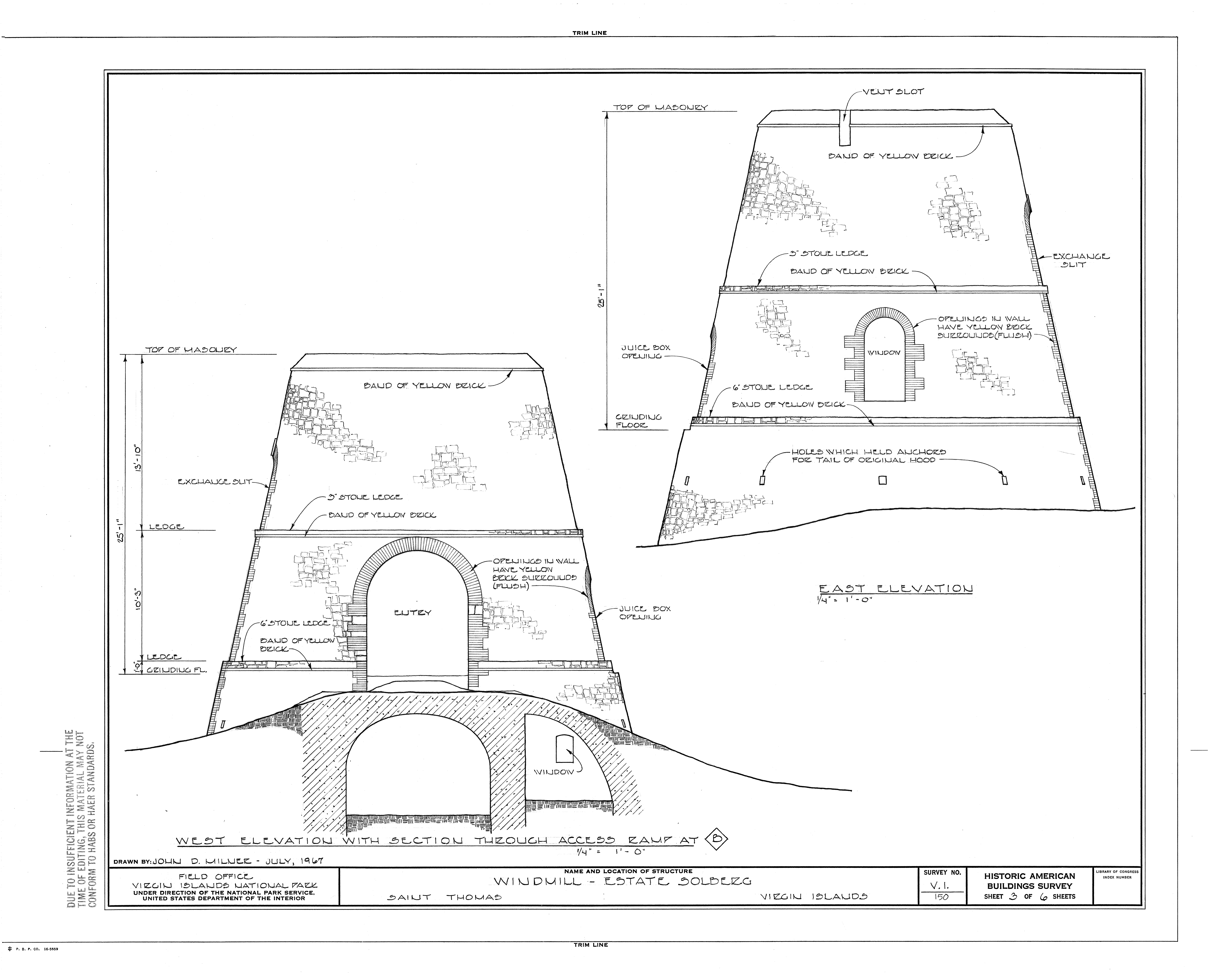 Gjessing, Frederik C, field team; Scott, Winslow, field team; Milner, John D, delineator